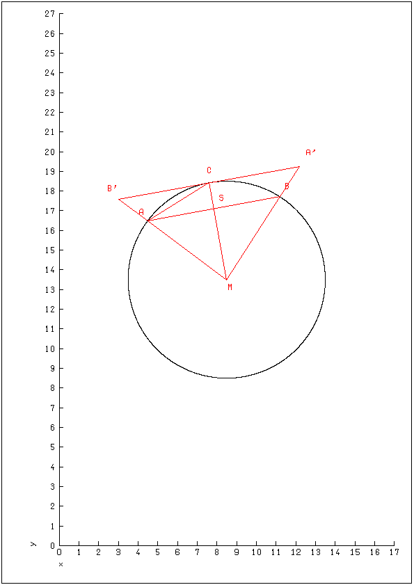 calculating pi like Archimedes with polygons